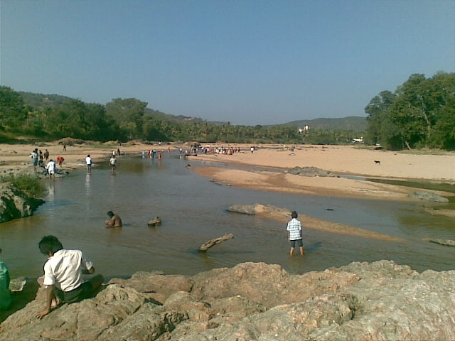 Devotees taking dip at Arkavathi-Cauvery Sangam